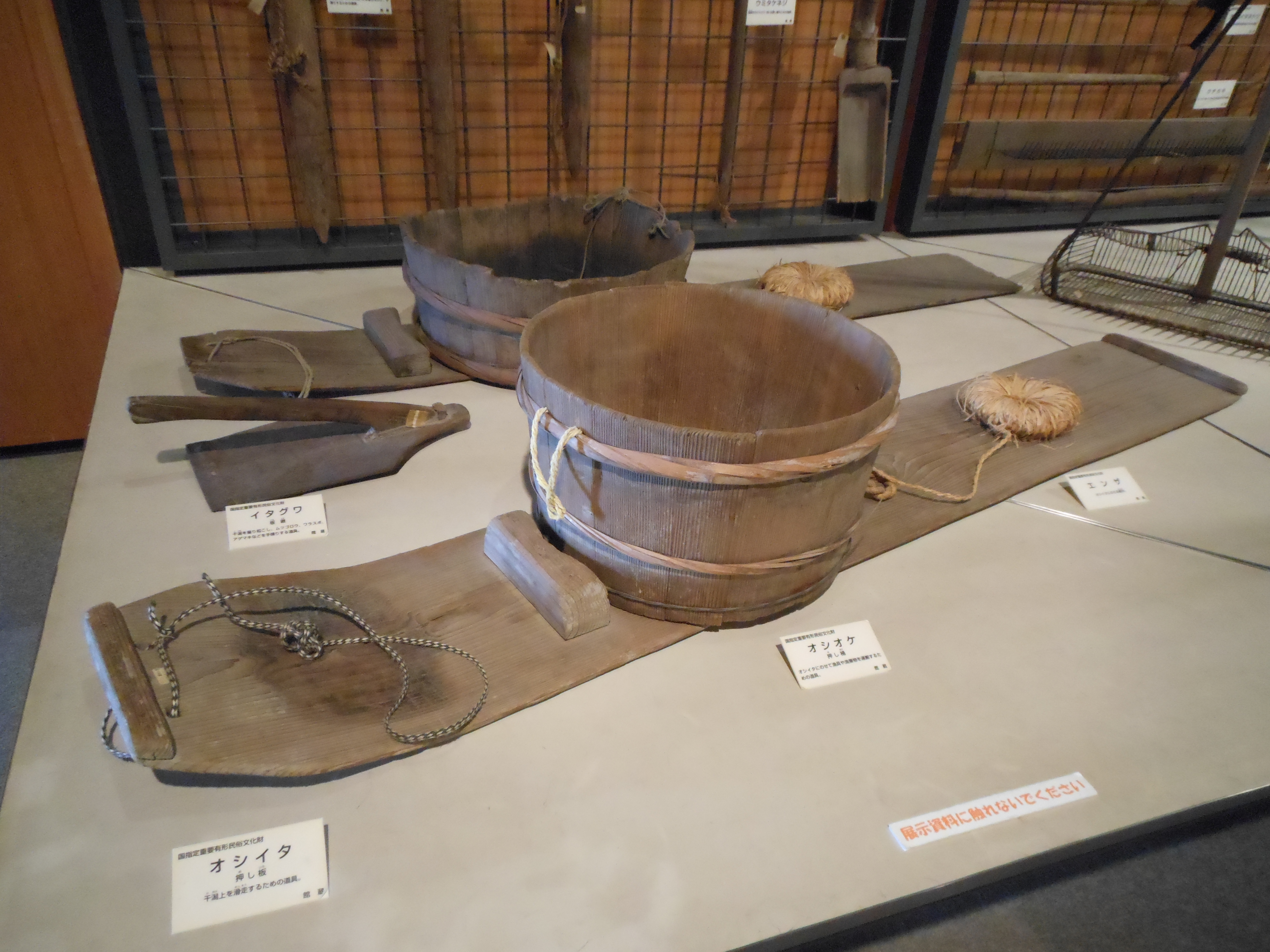 Push-slipping boards, tubs and mattocks for fising work in Ariake Sea, Japan. It displayed in Saga Prefectural Museum.